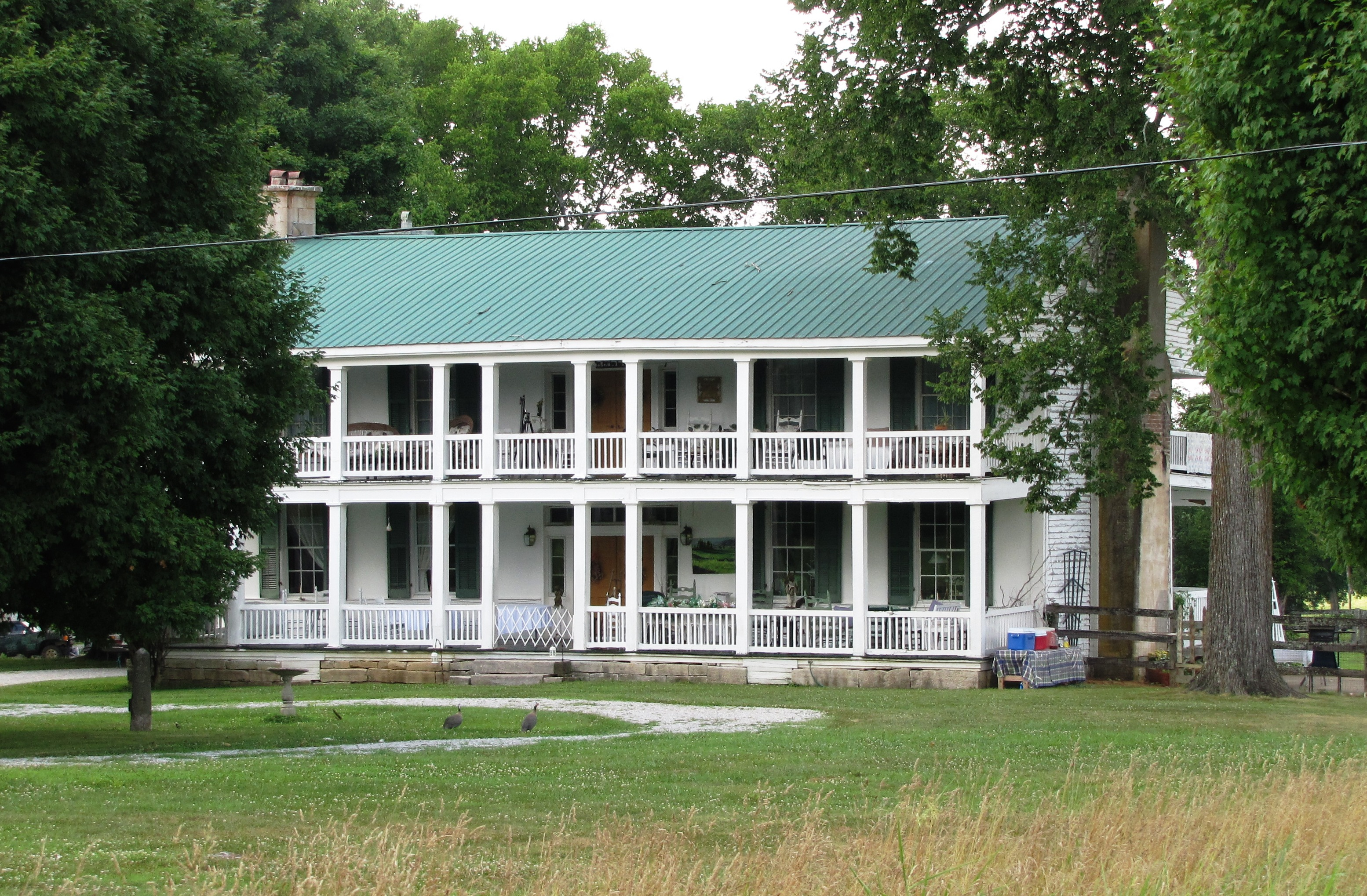 The William Washington Seay House in Flat Rock, Tennessee, USA. Built in the mid-nineteenth century, this house has been listed on the National Register of Historic Places.